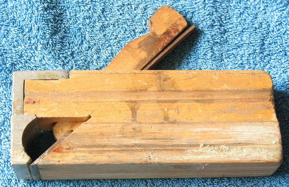 Bullnose This file was made by B. M. Askholm, Please credit this: B. Askholm foto. An email to B. Mathias at baskholm(--) would be appreciated too.